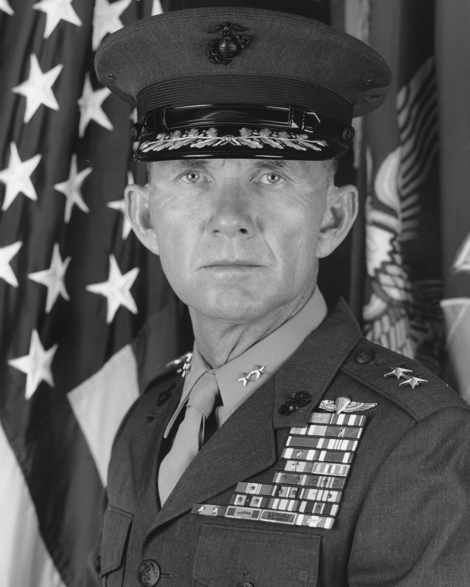 James E. Livingston, United States Marine Corps major general and Medal of Honor recipient